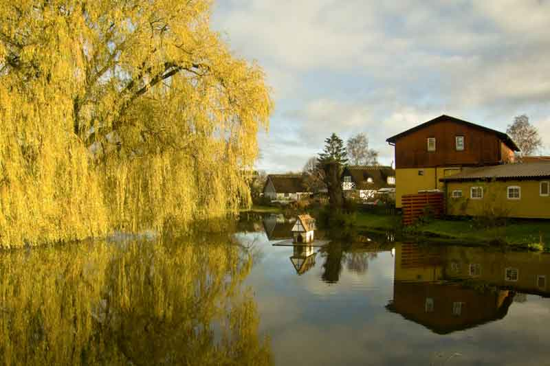 Pond in the village Ganløse in North Zealand, Denmark